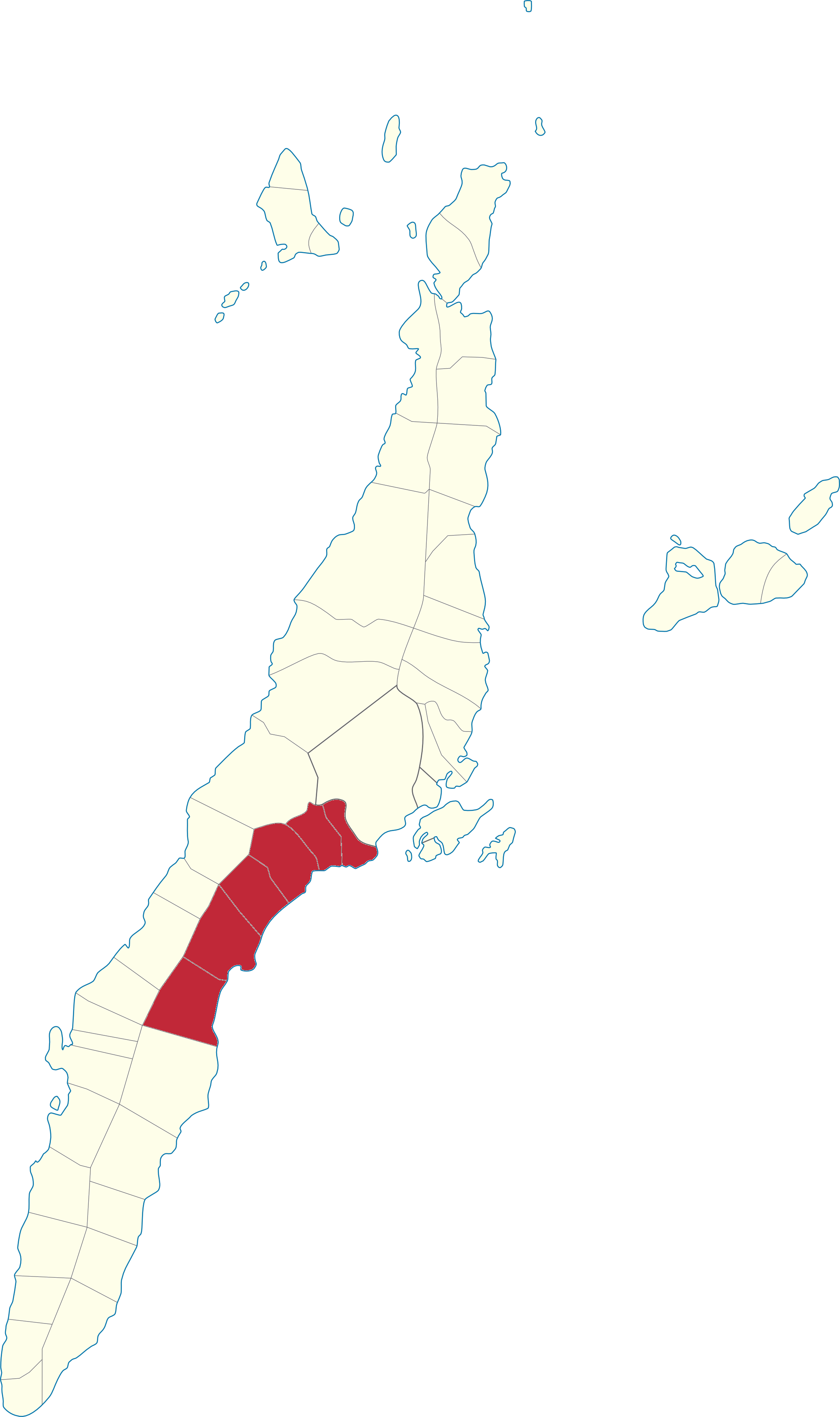 Location of 1st Legislative district of Cebu, Philippines